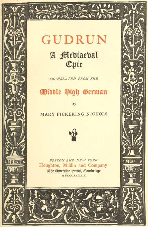 The title page of Mary Pickering Nichols' translation of the medieval German Epic Gudrun (or Kudrun), 1889. Though this is my own scan, similar images are available at google books and project gutenberg